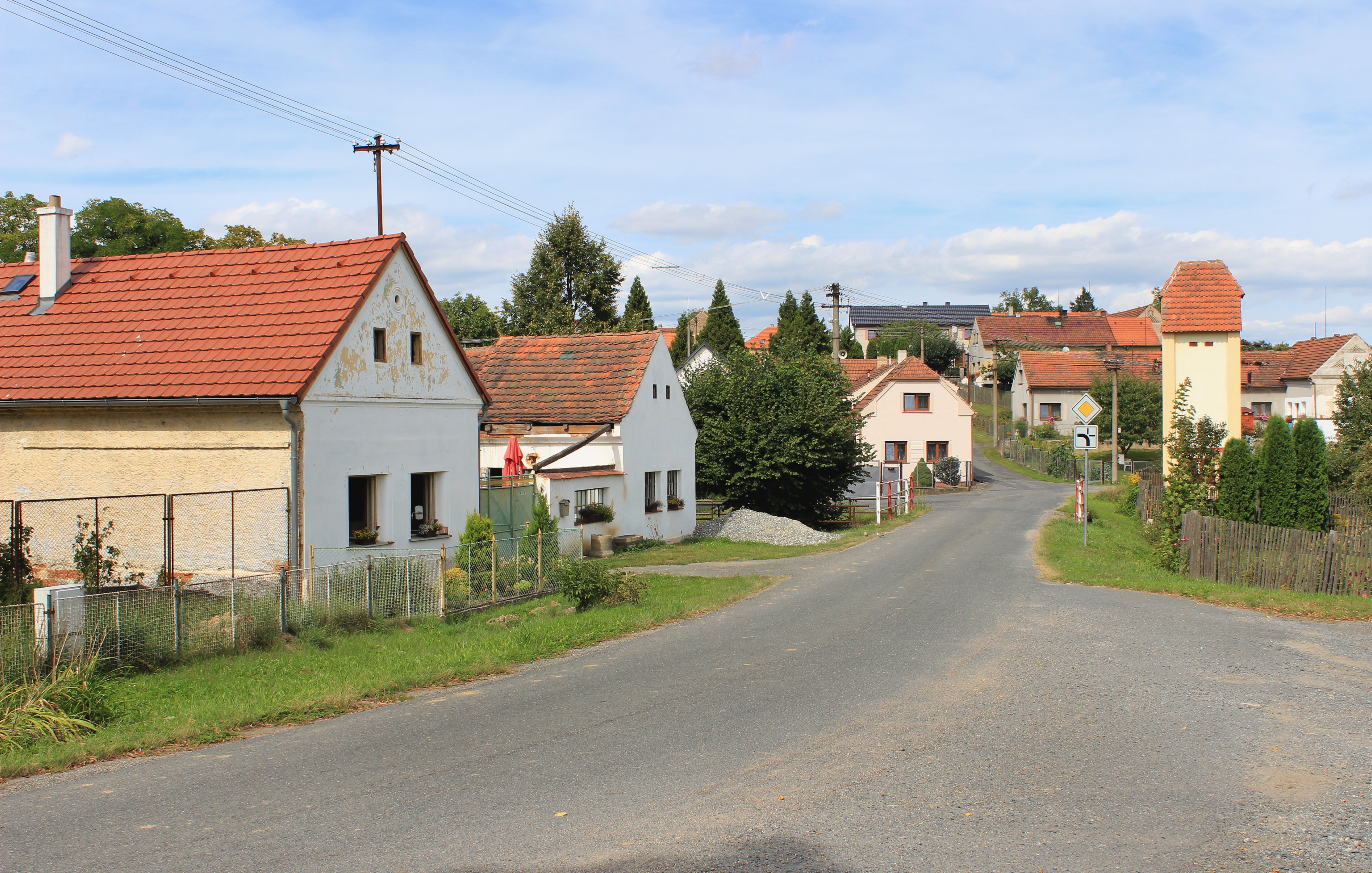 Road from Kvíčovice in Neuměř, Czech Republic.